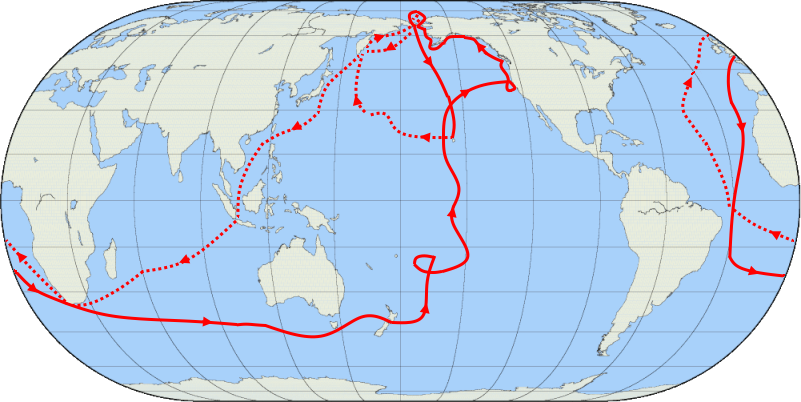 Map showing the third voyage of Captain James Cook. Route prior to Cook's death is shown in red, and the route of his crew following Cook's death is shown in blue.